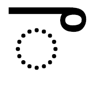 This appears to be a diacritic marking from the Telugu alphabet or Sinhala alphabet.